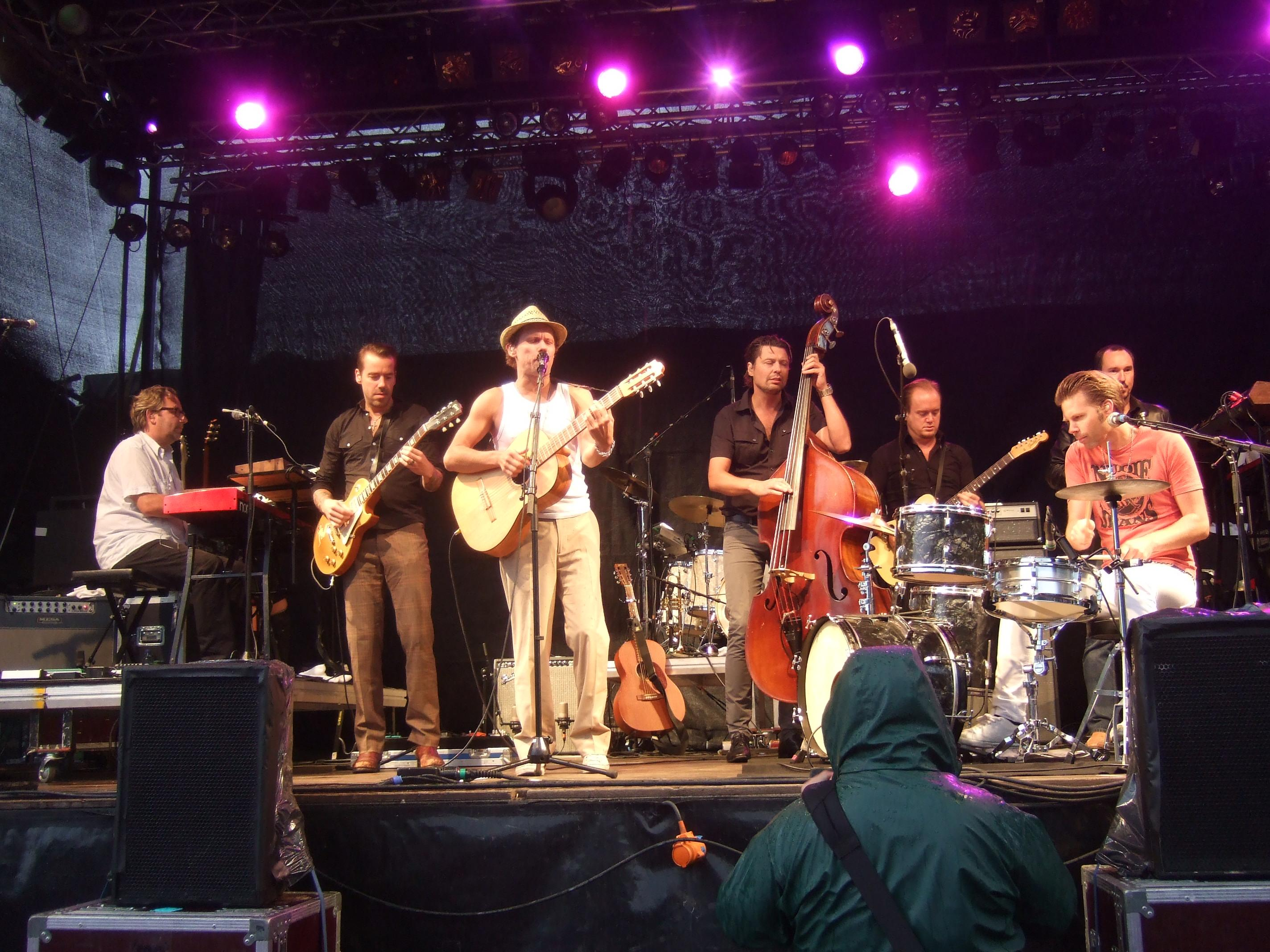 Bo Kaspers Orkester at the park festival in Bodø 2007